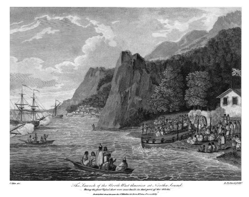 Drawing of the launch of the North West America at Nootka Sound, 1788. Caption: The launch of the North-West America at Nootka Sound, 1788. From Meares's Voyages.